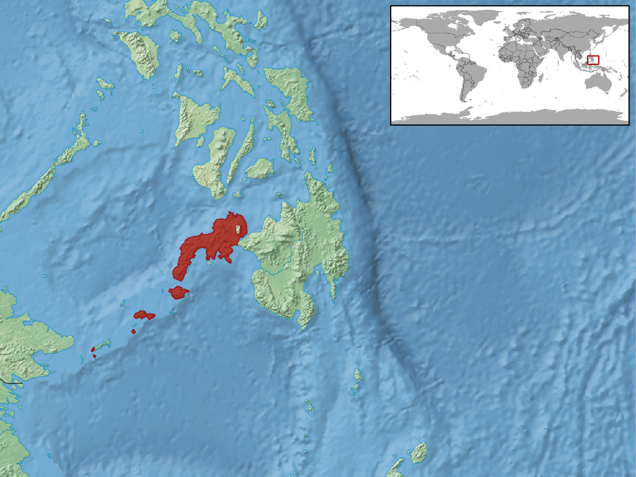 geographic distribution of Draco guentheri (Native: Philippines)